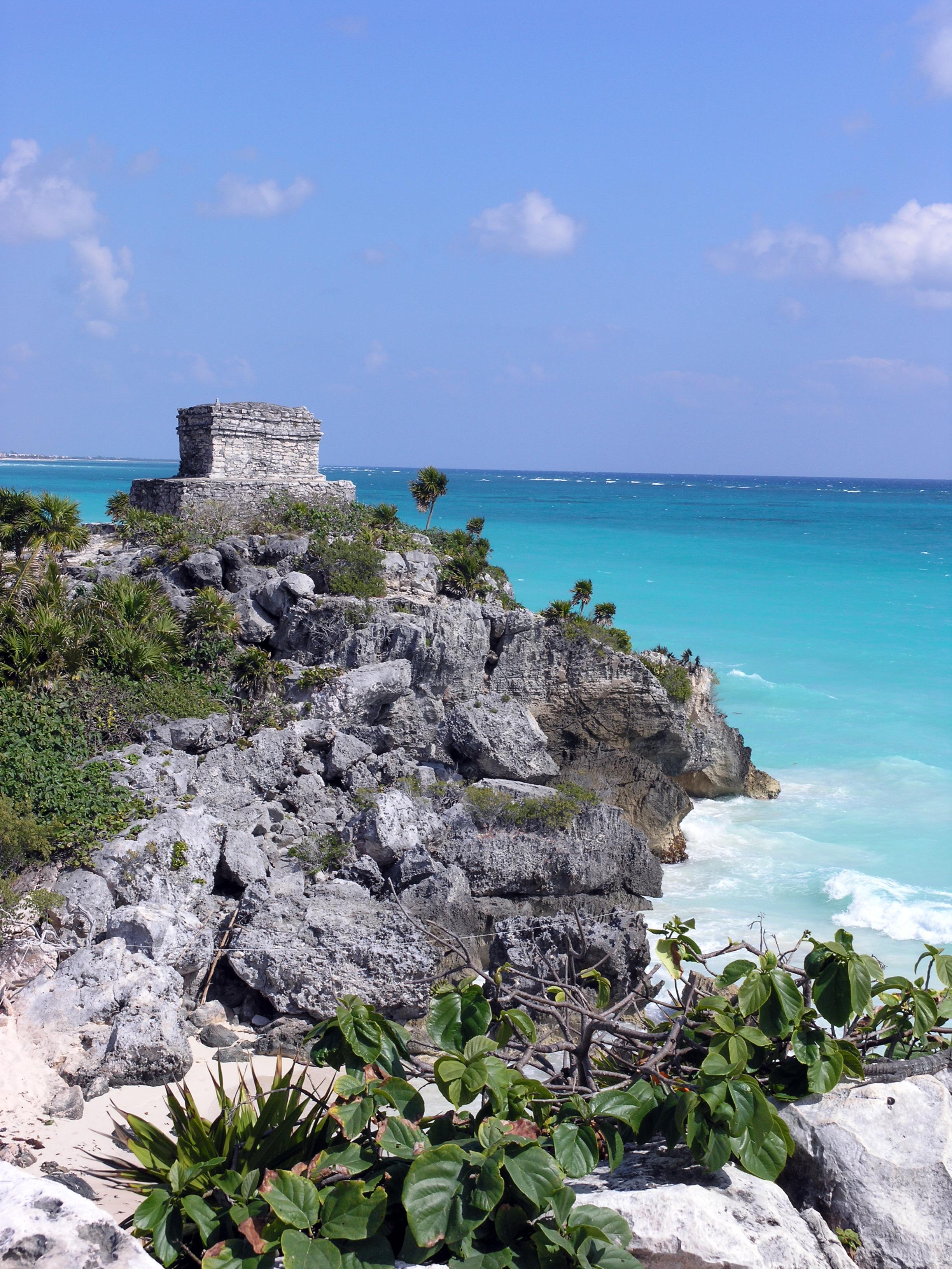 Tulúm, Yucatan, Mexico. Ruins of the Mayas.